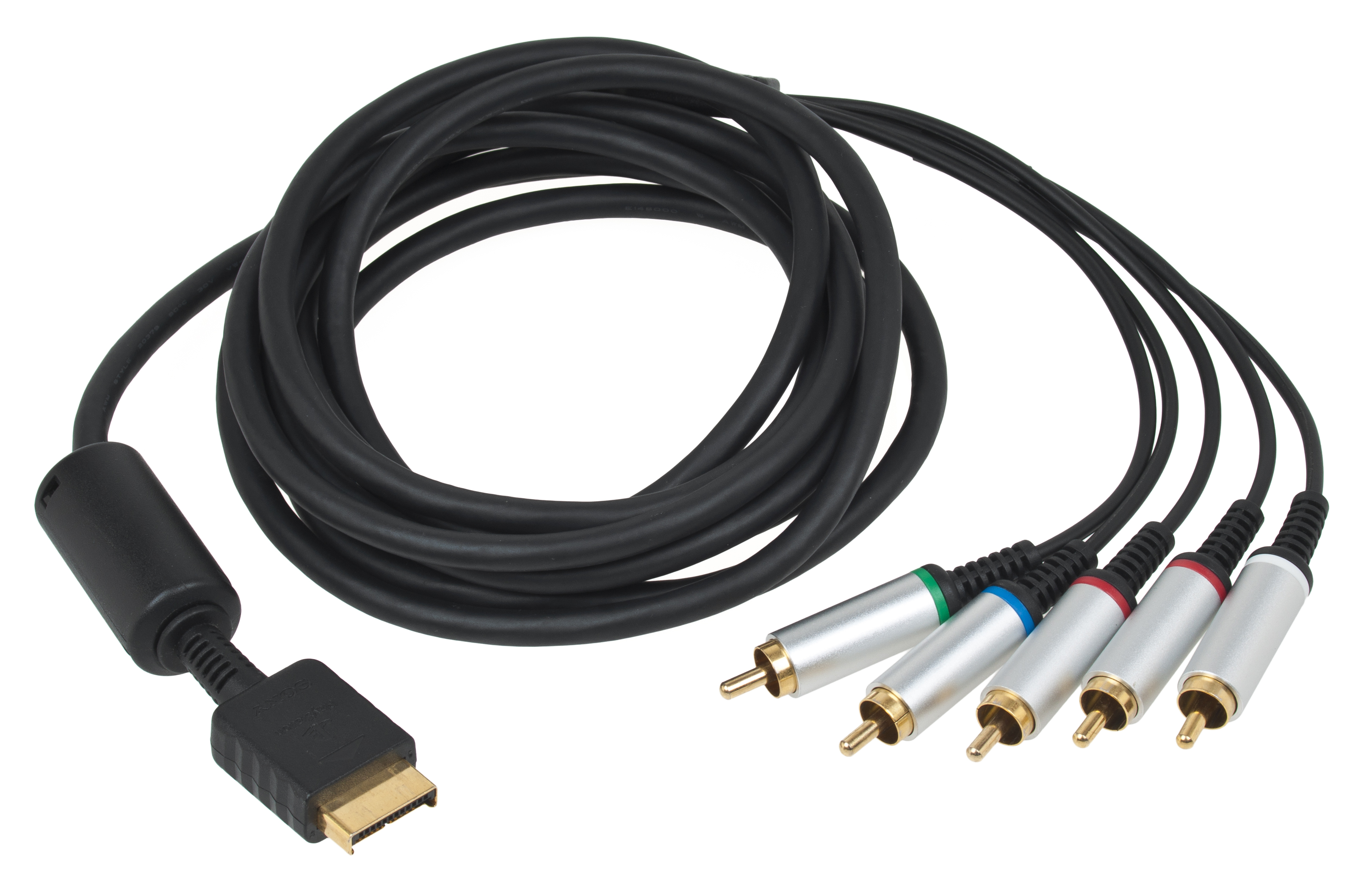 PlayStation component cable, which can be used to output YPBPR component video and stereo analog audio from the PlayStation 2 or PlayStation 3. YPBPR component video is not supported by the original PlayStation.